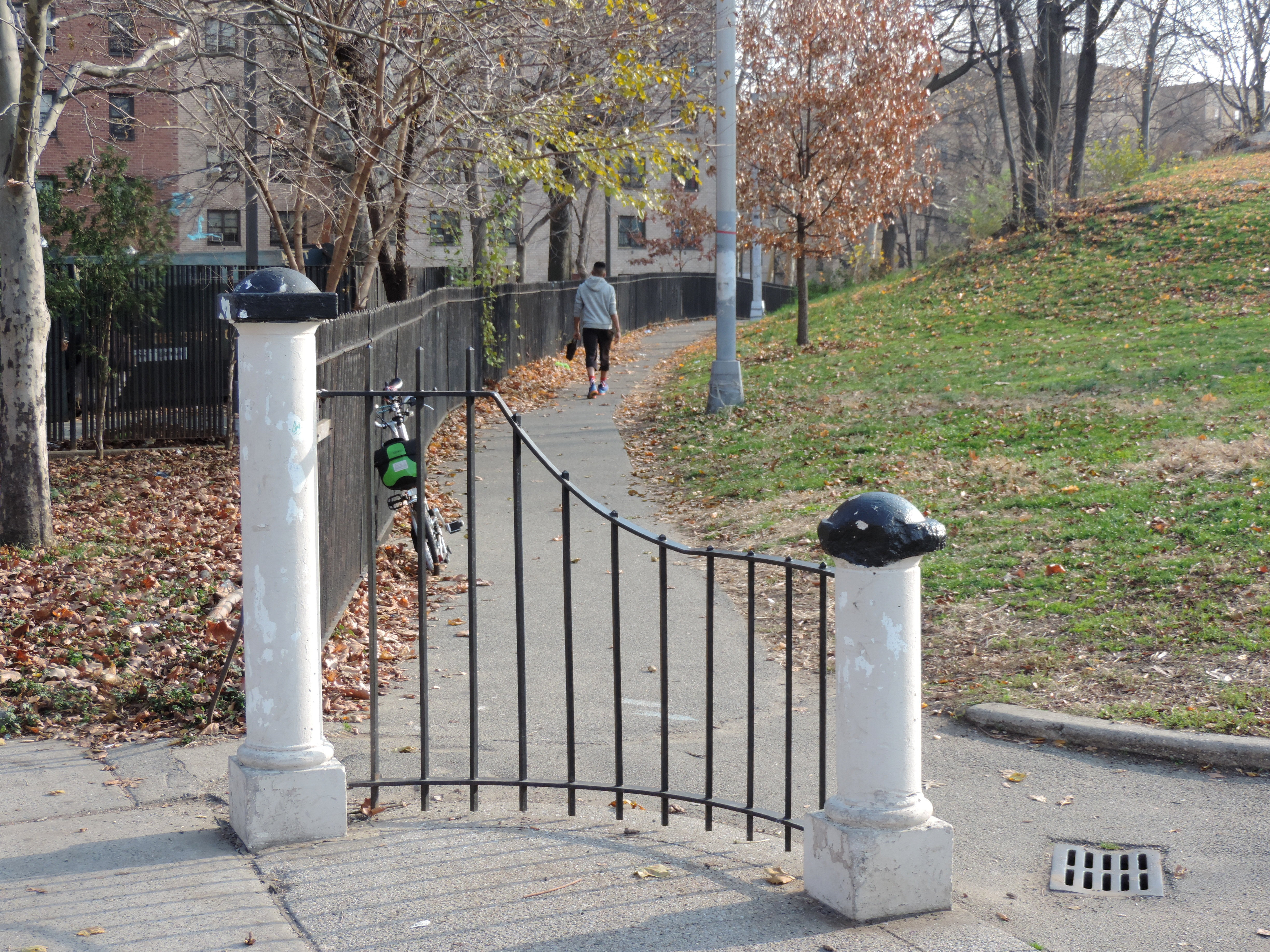 Looking south along the footpath that approximates the original surface route of the Port Morris Branch on a partly cloudy miday